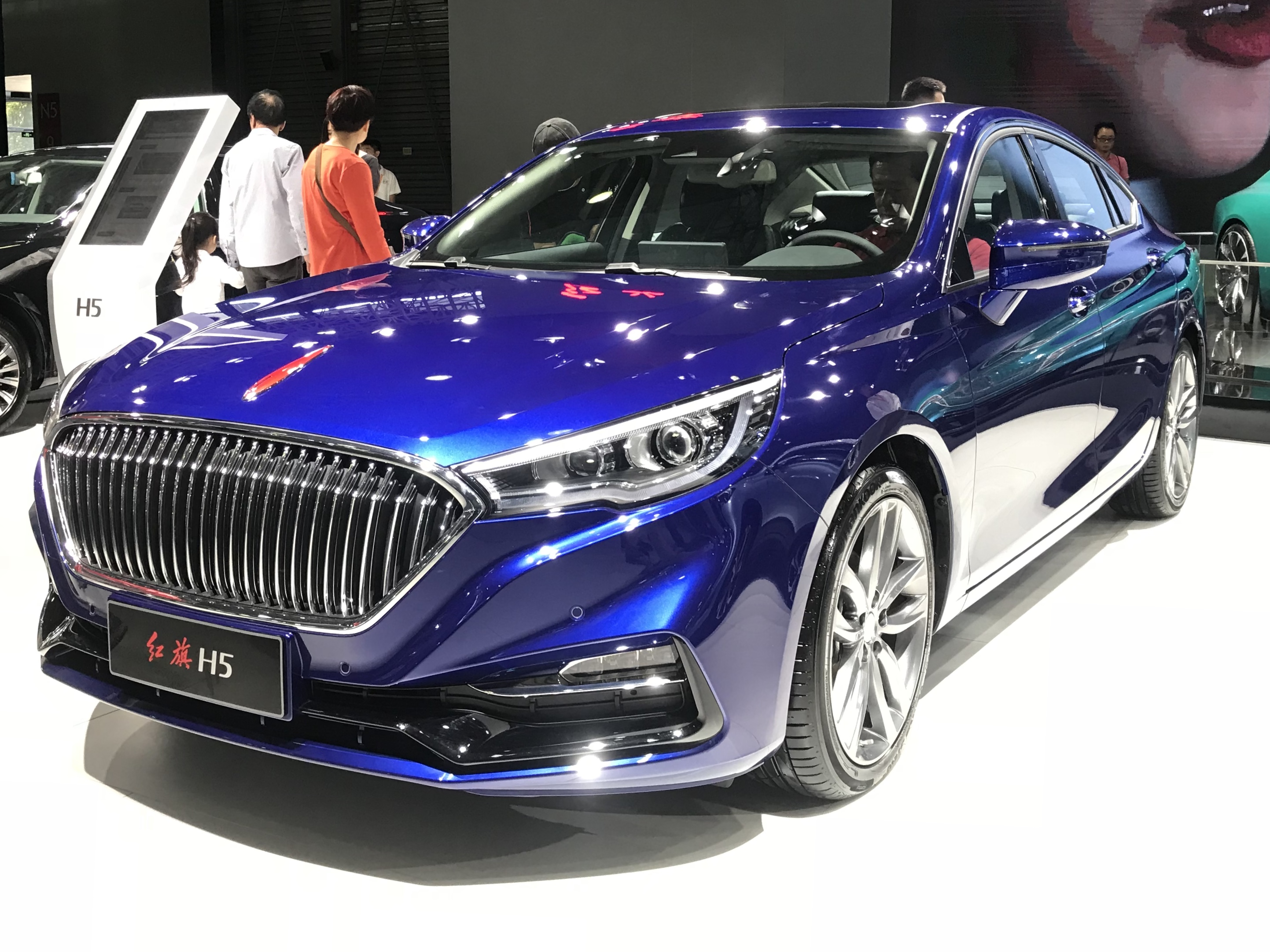 Hongqi H5 front